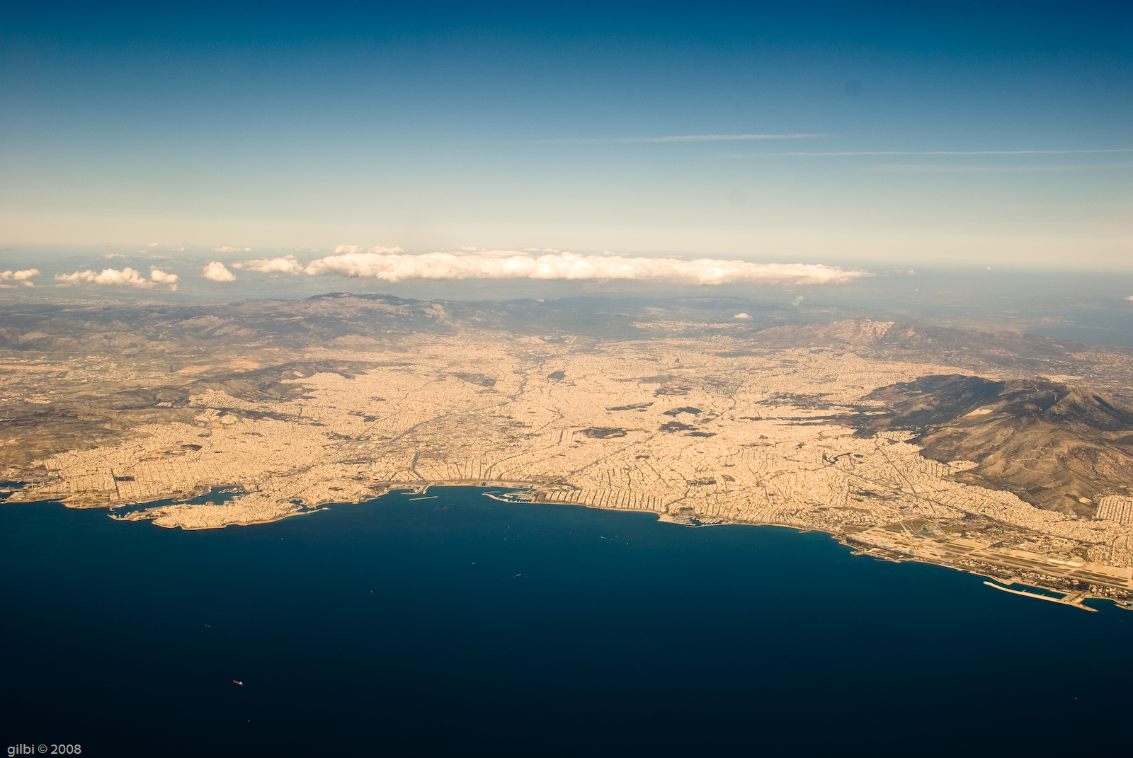 Map it: Google Earth | Street | Satellite | Hybrid | Nautical